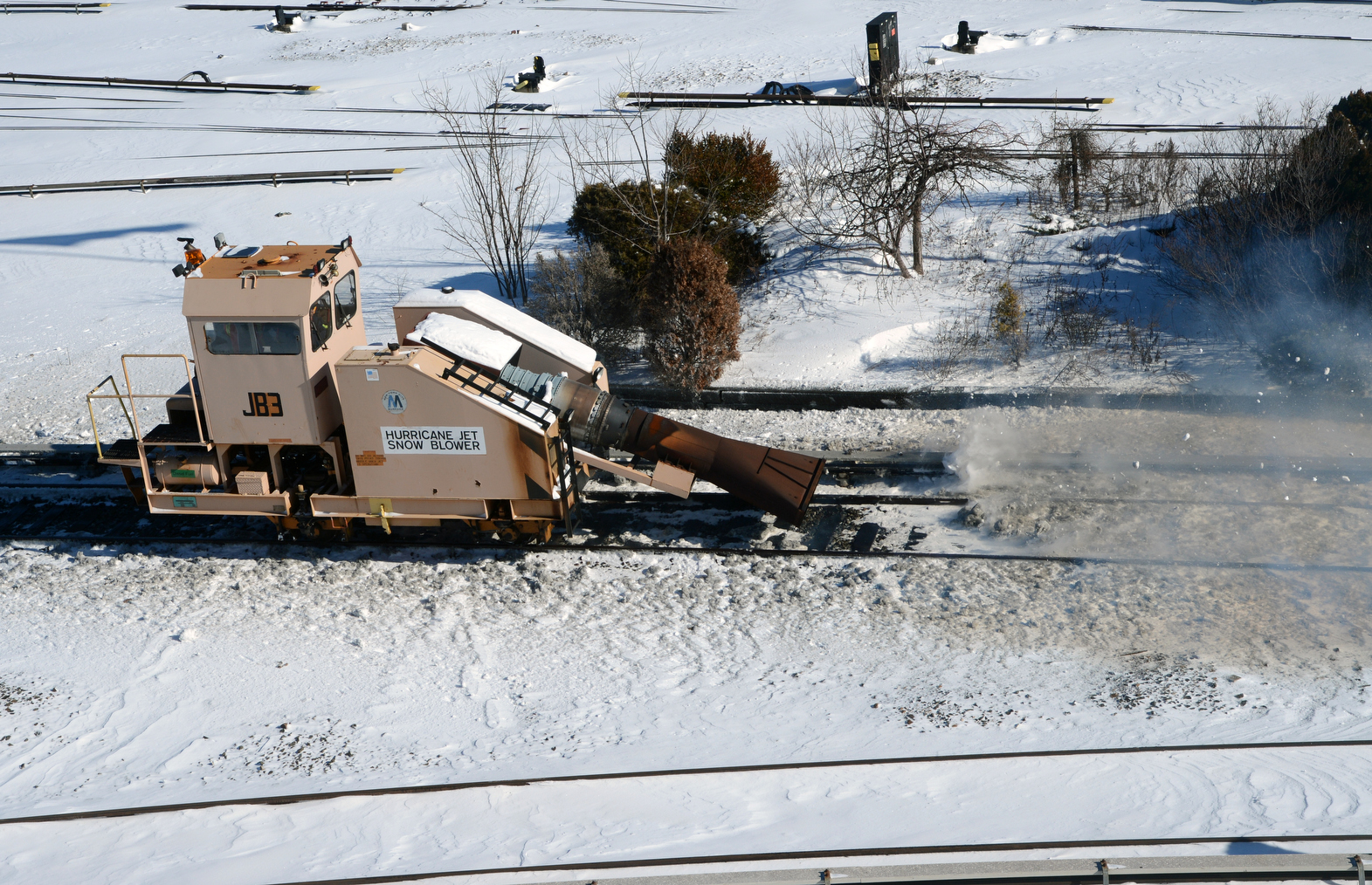 MTA New York City Transit in operation on Wed., January 22, 2014, the morning after more than a foot of snow fell on the region. A Hurricane Jet Snow Blower clears a track in the Coney Island Yard. Photo: Marc A. Hermann / MTA New York City Transit